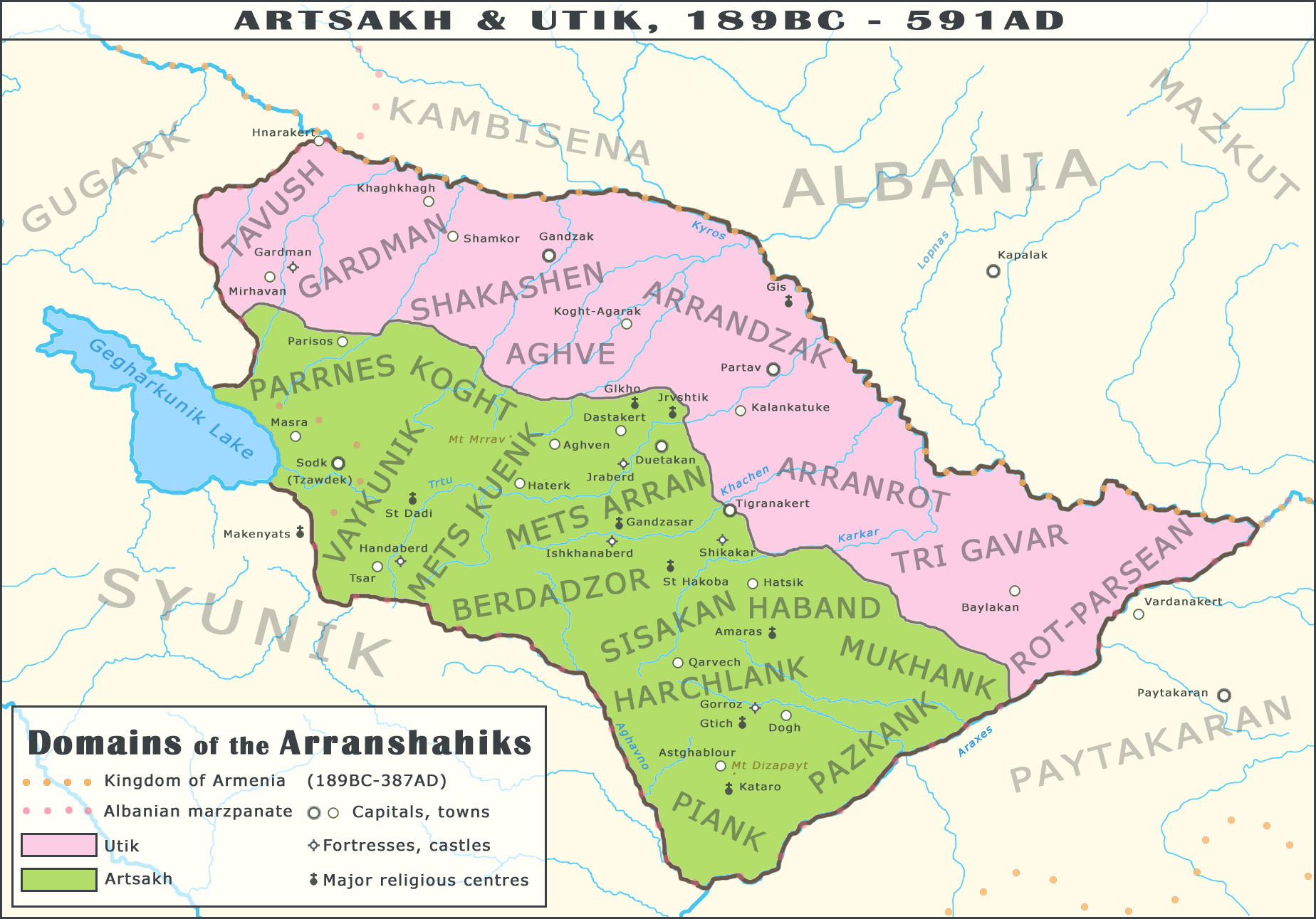 Artsakh & Utik. Domains of the Arranshahiks, an ancient Armenian royal house. Author: User:Vacio.